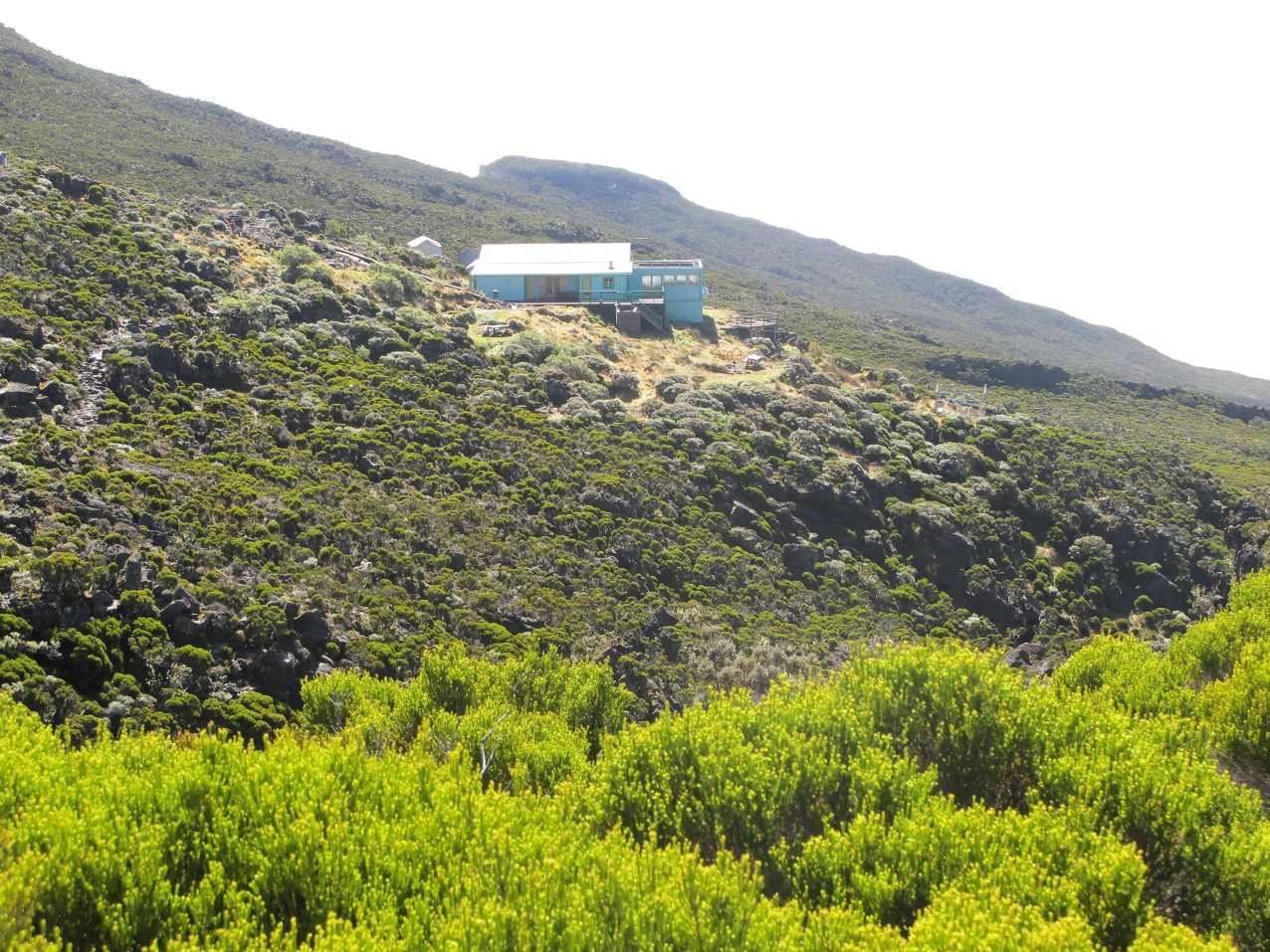 Piton des Neiges: Mountain Hut Caverne Dufour